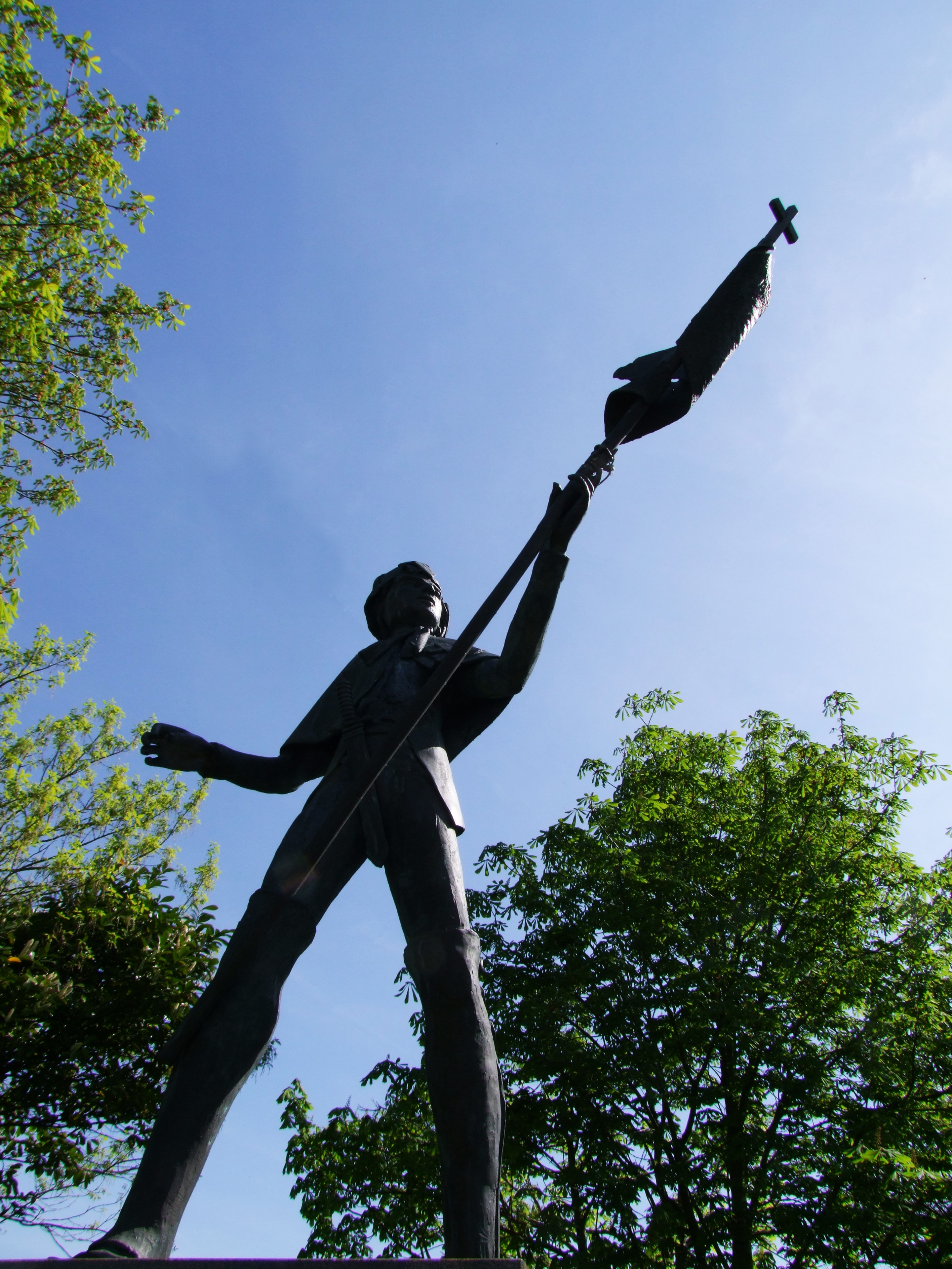 Monument erected in 1998 in Schelle to commemorate the bi-centenial of the Boerenkrijg of 1798, upheaval against the French revolutionary oppression. Coordinates : (51.12128, 4.32591)